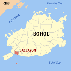 Map of Bohol showing the location of Baclayon